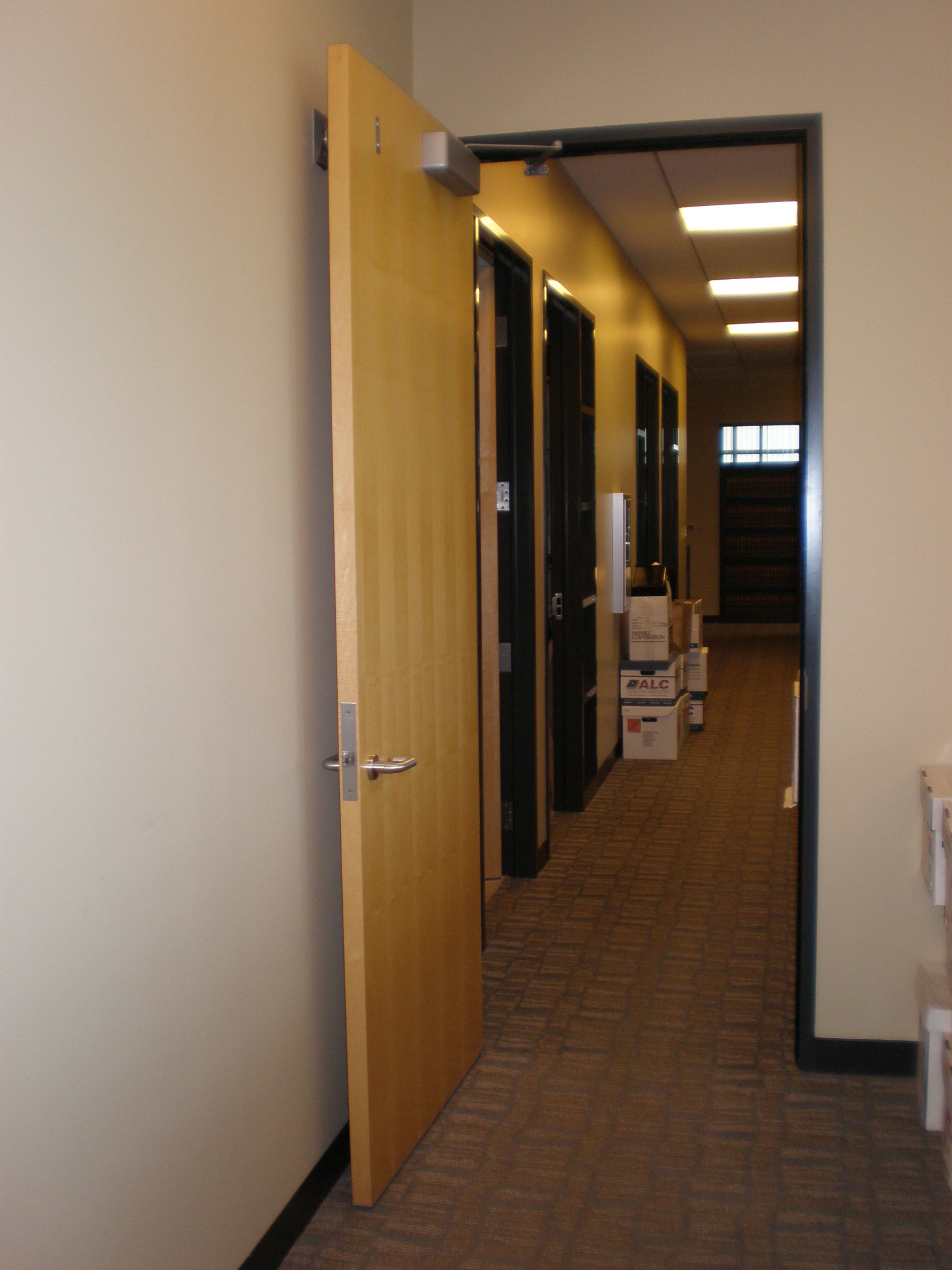 A wooden fire door in an office building in Palo Alto, California. The door is normally held open via a magnet.